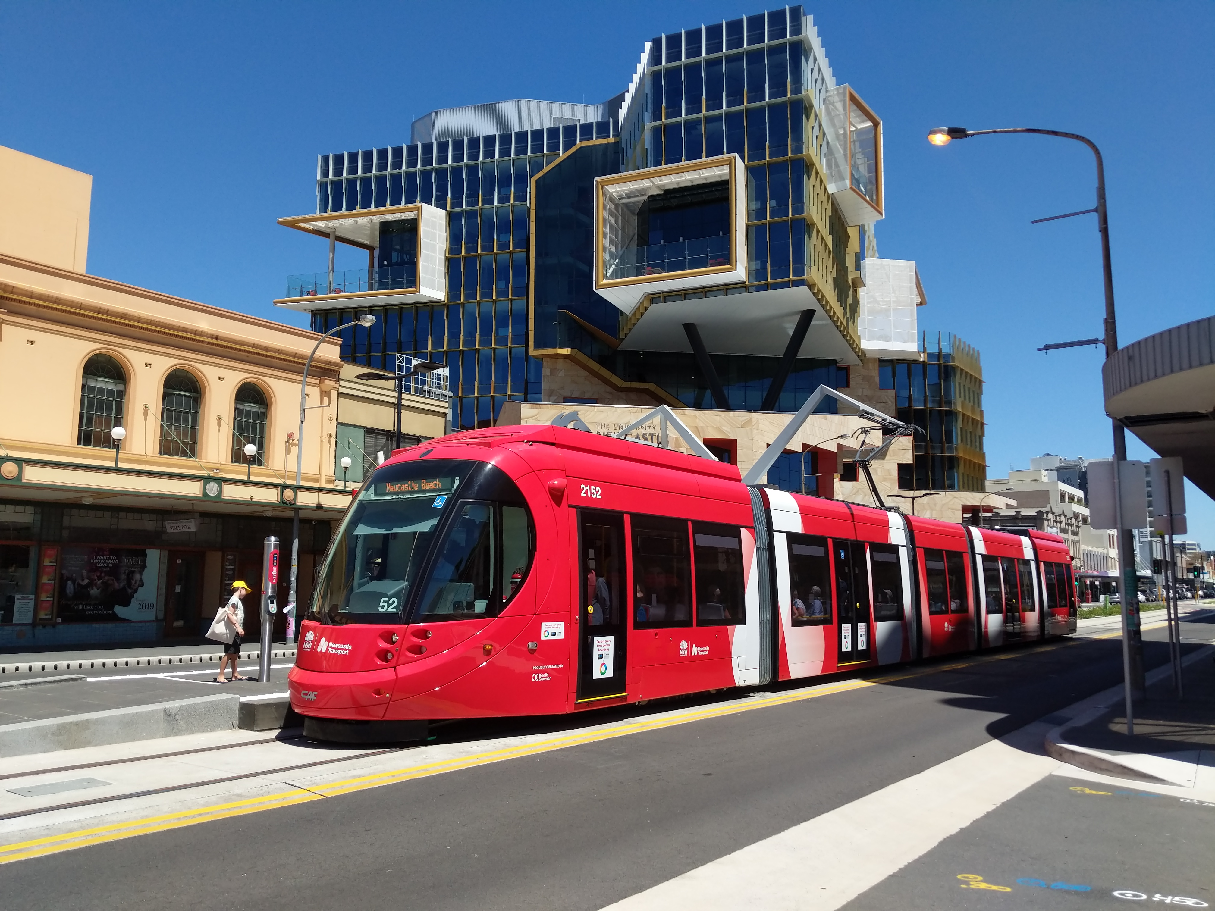 Newcastle Light Rail at Civic